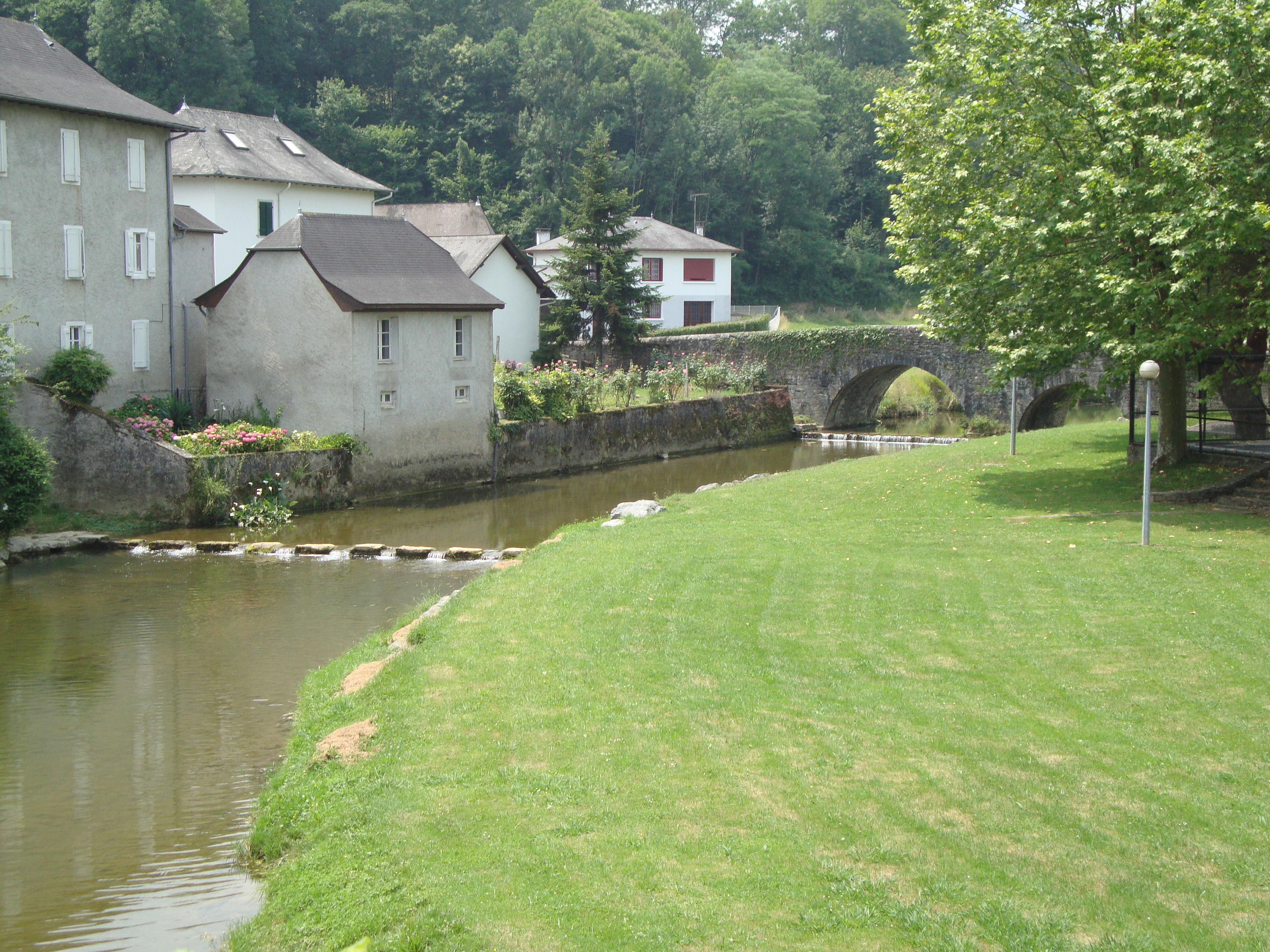 Ordiarp (Pyr-Atl, Fr) one of the fords and the roadbridge over the Arangorena